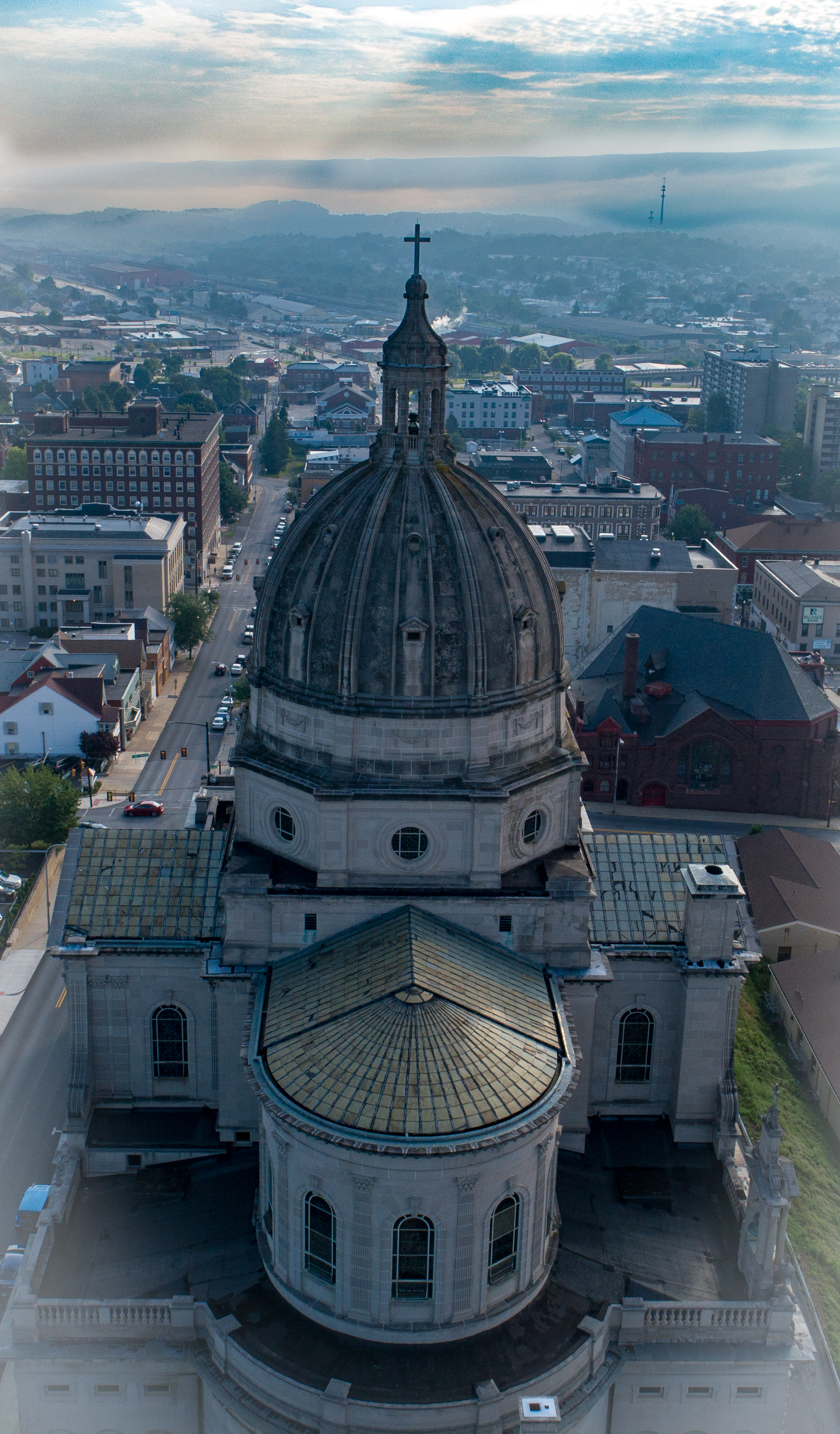 Aerial photo of the Cathedral of the Blessed Sacrament, Altoona PA, USA.